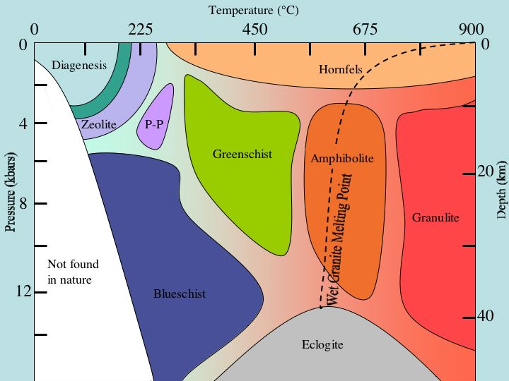 Diagram of metamorphic facies in regards to temperature and pressure.